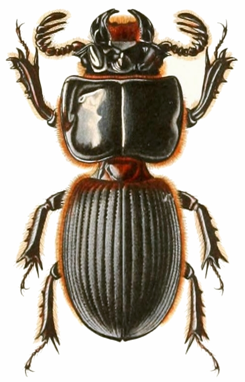 Illustration of Proculus opacipennis (Thomson, 1858) - Guatemala; a giant Latin-American species of genus Proculus in Passalidae beetles.[1]